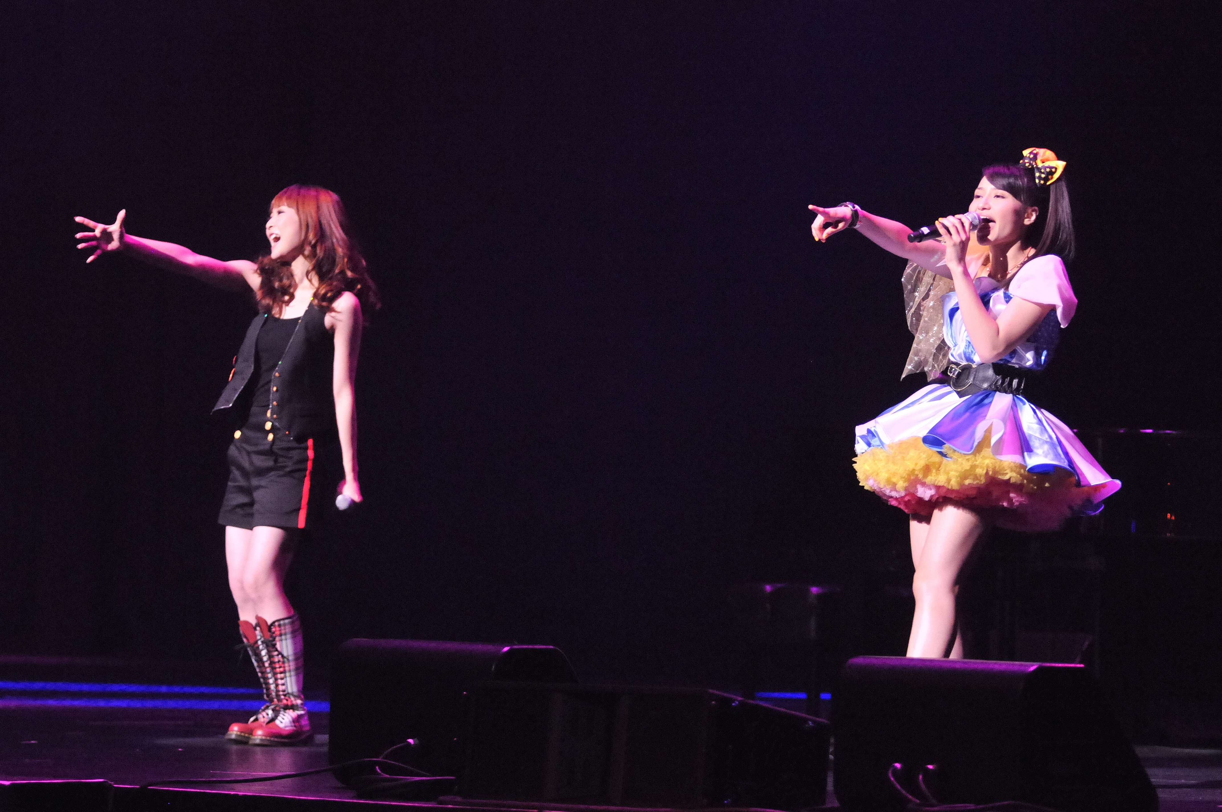 May'n (left) and Megumi Nakajima (right), performing together at Anime Expo 2010 at the Nokia Theater in Los Angeles, California.